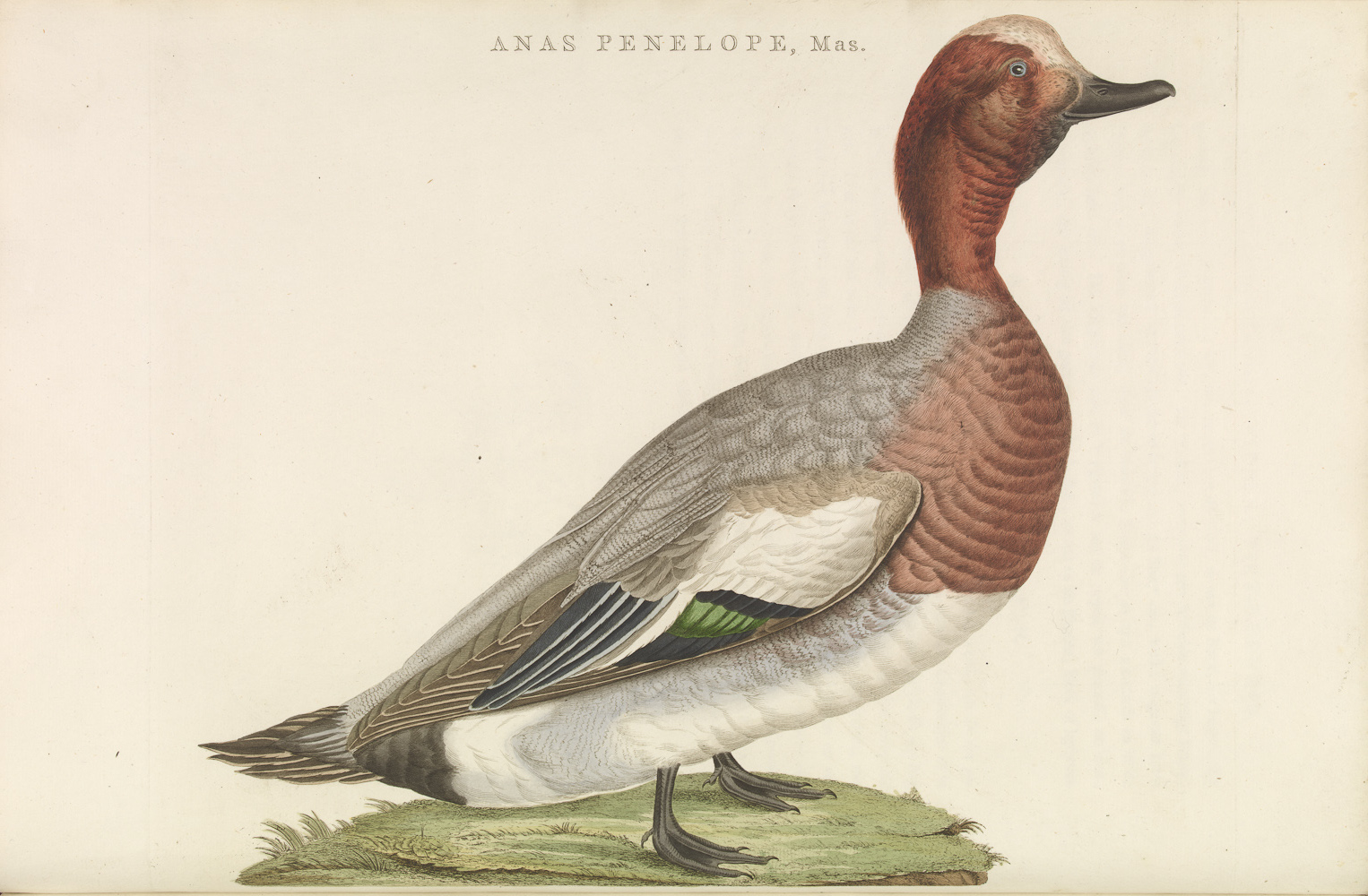 Plate 109 from the Nederlandsche vogelen by Nozeman and Sepp.